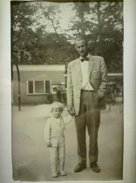 Goesta Koehl with his son Dan outside the entree of Skansen 1964